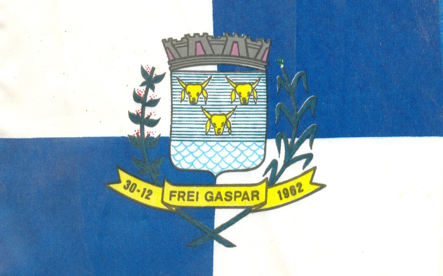 Bandeira do município de Frei Gaspar, MG, Brasil. Brasões e bandeiras brasileiras e reproduções destas (inclusive fotos enquadradas apenas delas) pertencem ao domínimo público.